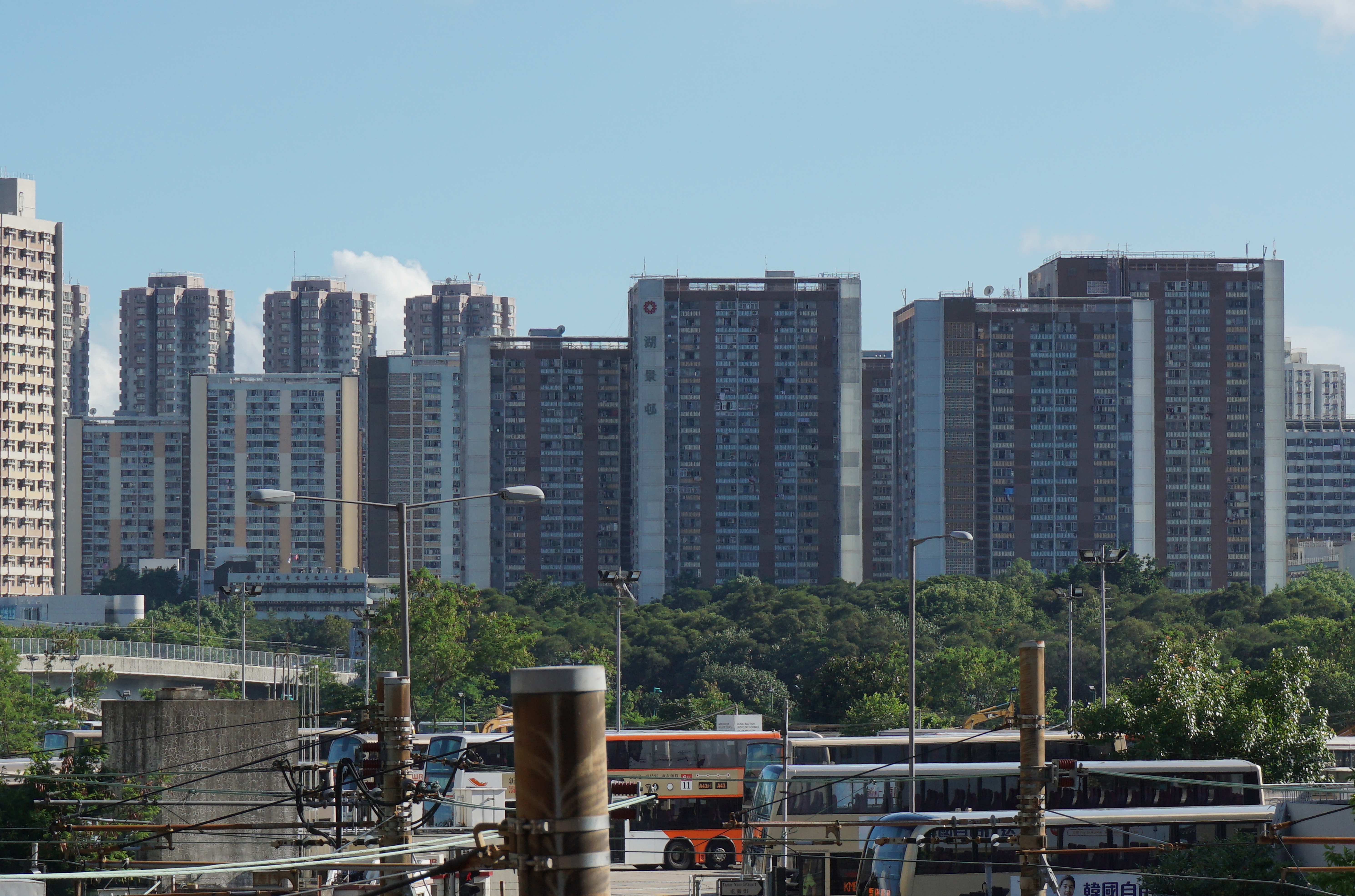 Wu King Estate in Tuen Mun, Hong Kong.